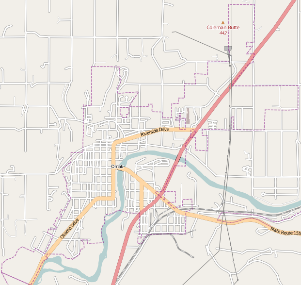 Map of city limits for Omak, Washington Map of Omak, Washington This map of Omak was created from OpenStreetMap project data, collected by the community. This map may be incomplete, and may contain errors. Don't rely solely on it for navigation.